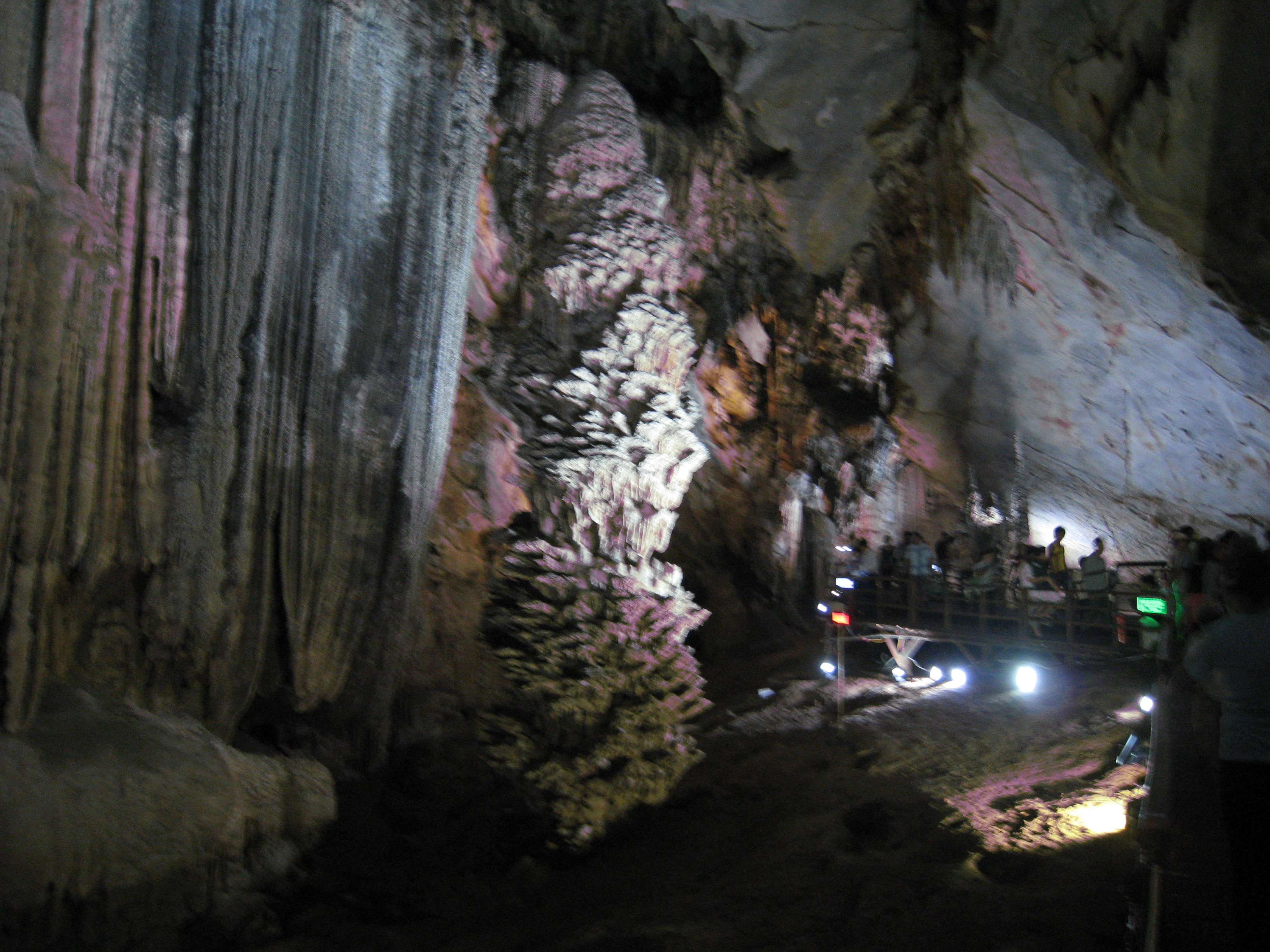 Thien Duong Cave in Phong Nha-Ke Bang, Vietnam